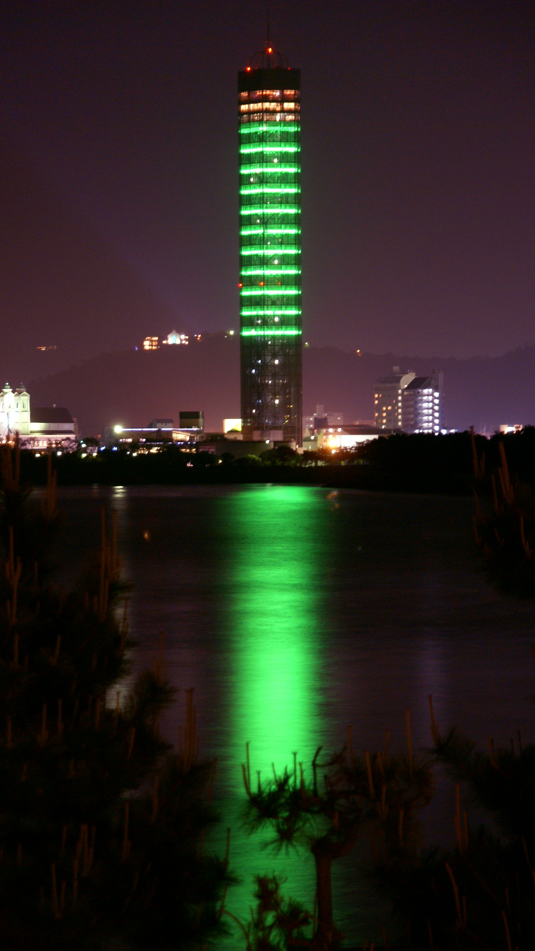 Gold Tower in Utazu, Kagawa prefecture, Japan